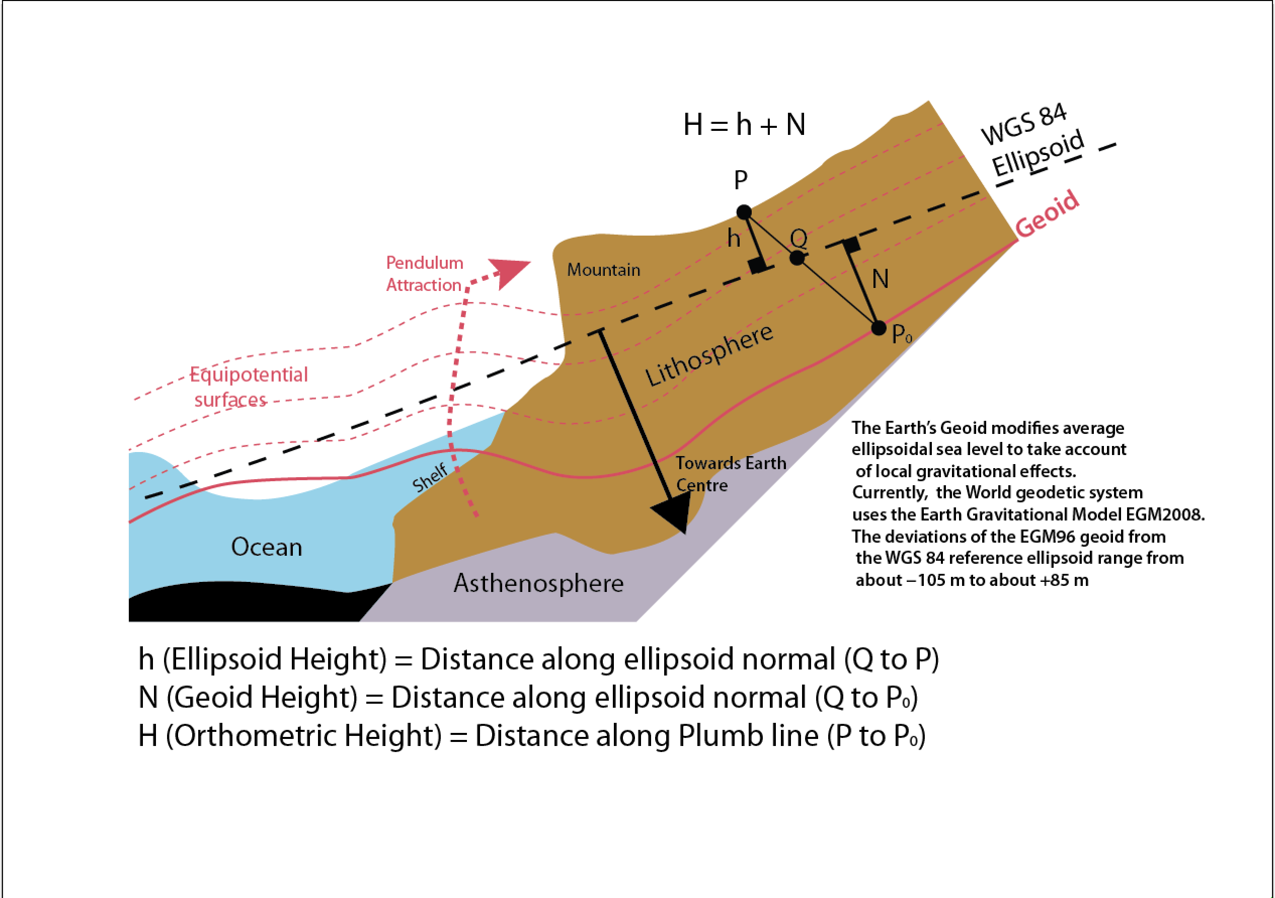 This diagram illustrates how local differences in gravity affect the orthometric height between land surfaces, the WSG84 ellipsoid and the geoid used to determine sea level throughout the globe. Adjacent formulas show how orthometric height is calculated. Relative sea level